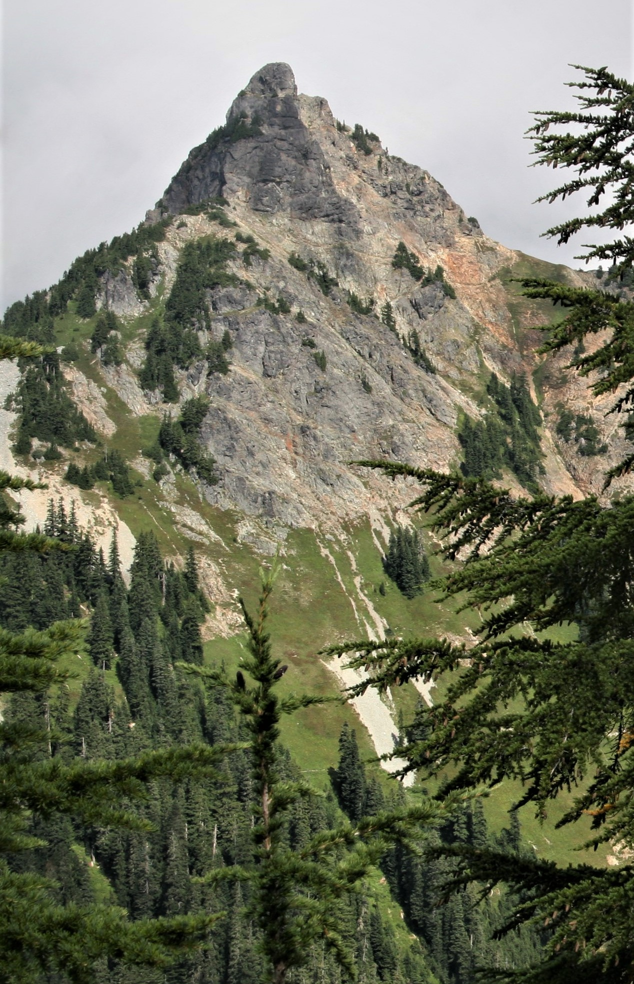 Huckleberry Mountain. We decided to turn back here. It seemed like we burned off everybody except 3 through hikers. Nobody around.